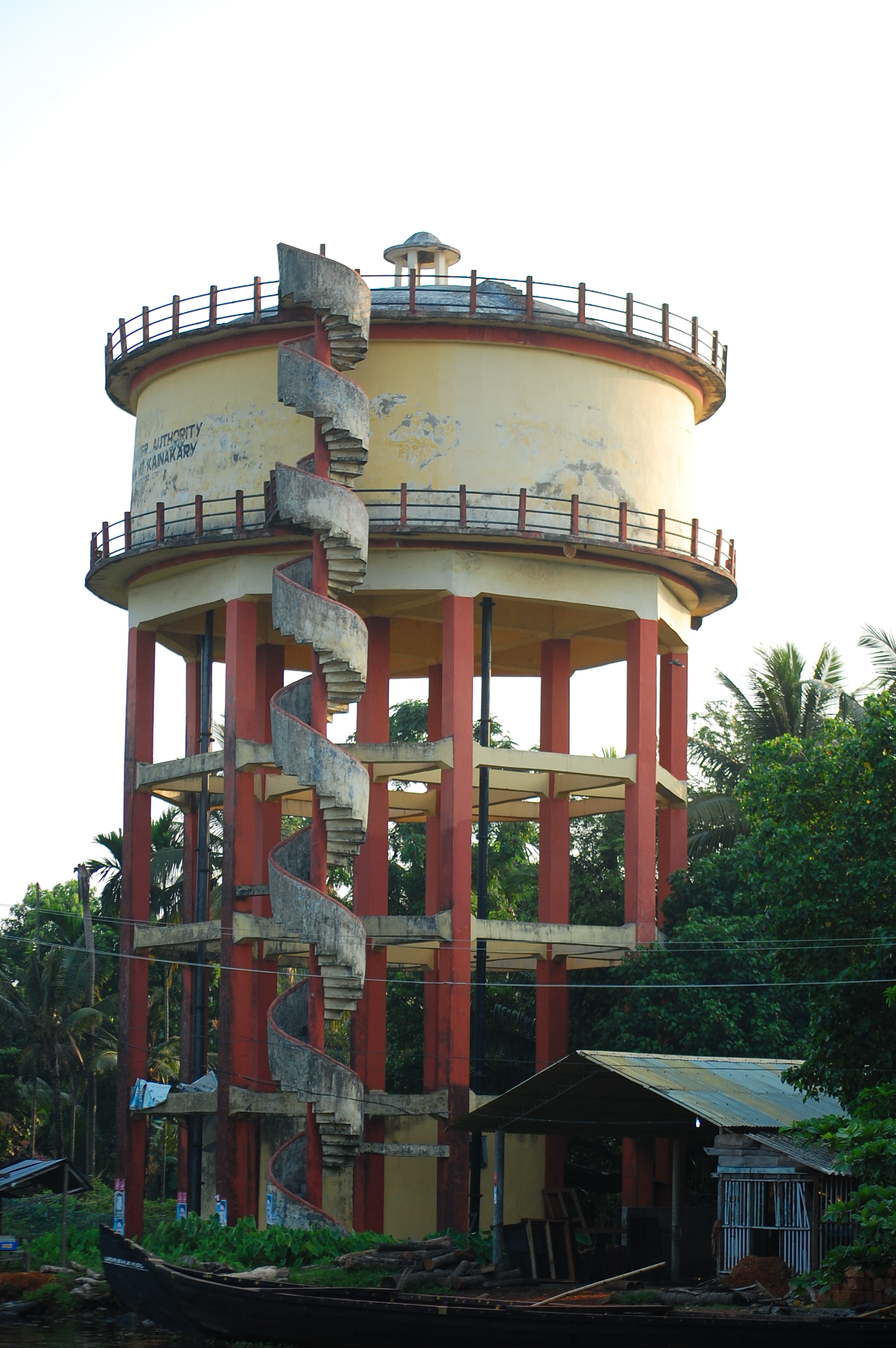 Government water tank in kainakary, alappuzha, Kerala.